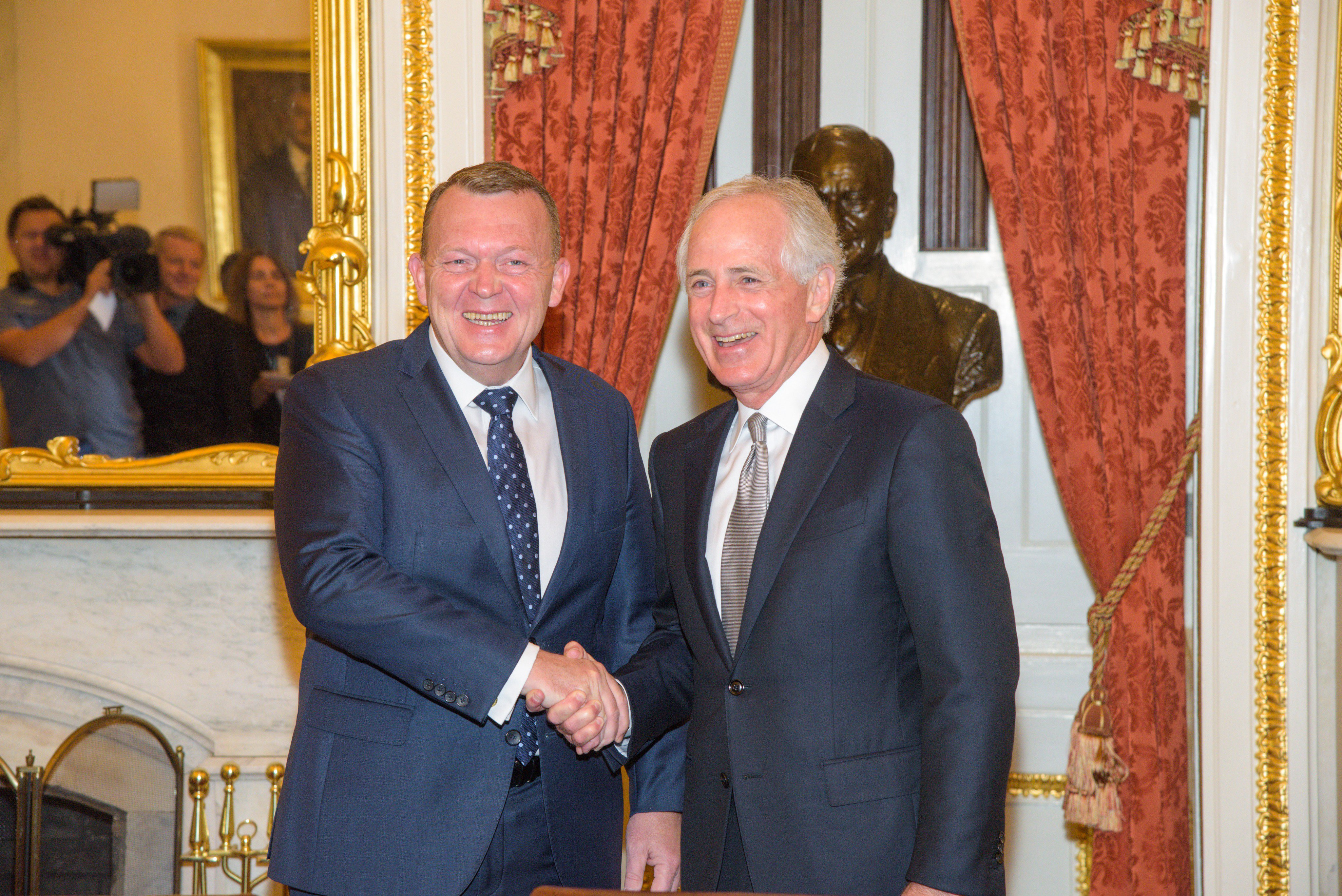 Appreciative of the opportunity to sit down with Prime Minister @larsloekke of Denmark to discuss the current state of global affairs.